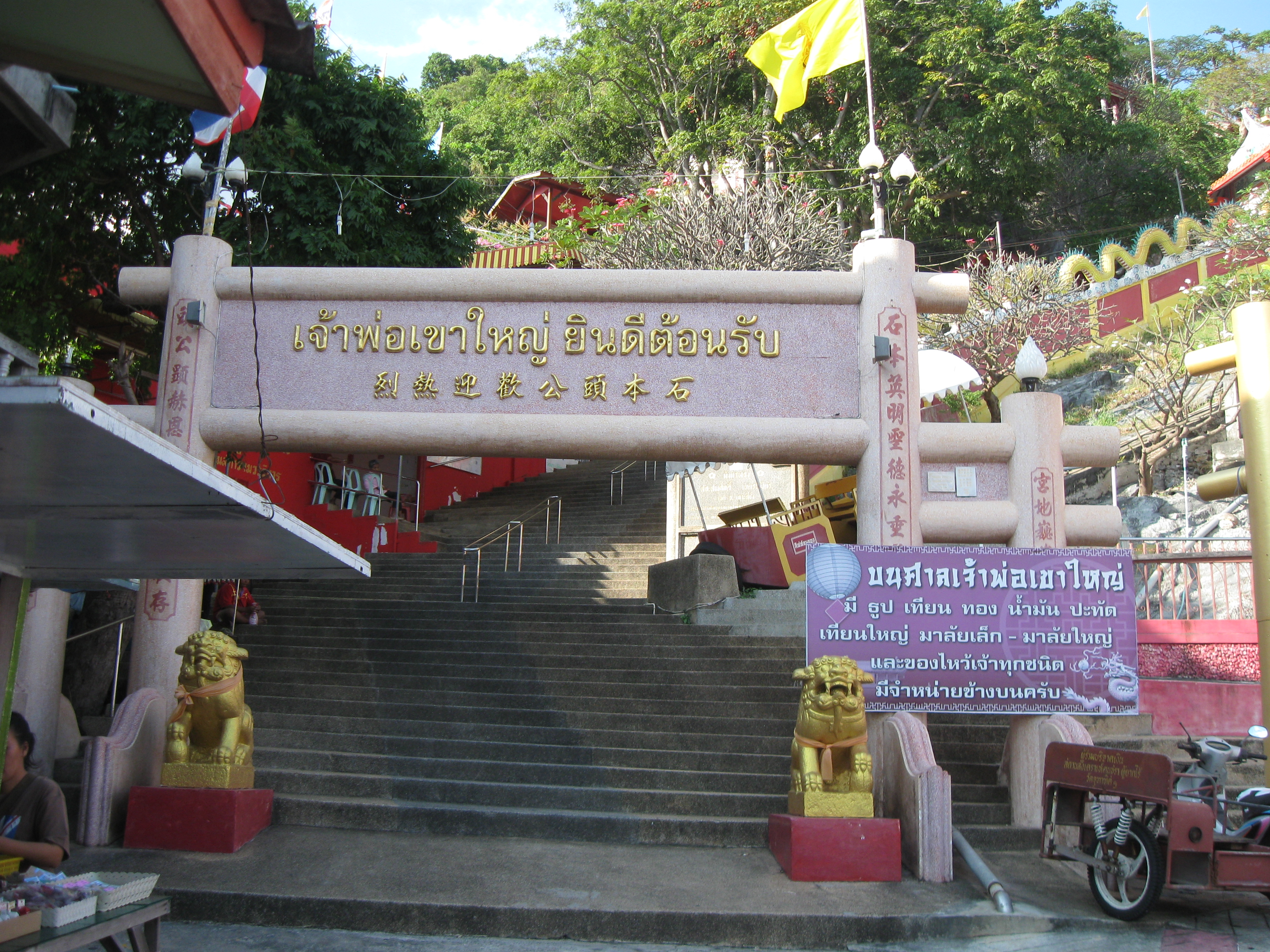 Wat Saan Chao Pho Khao Yai in Ko Sichang, Thailand